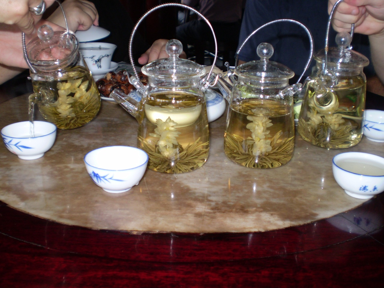 Delicious jasmine, flower tea in Shanghai